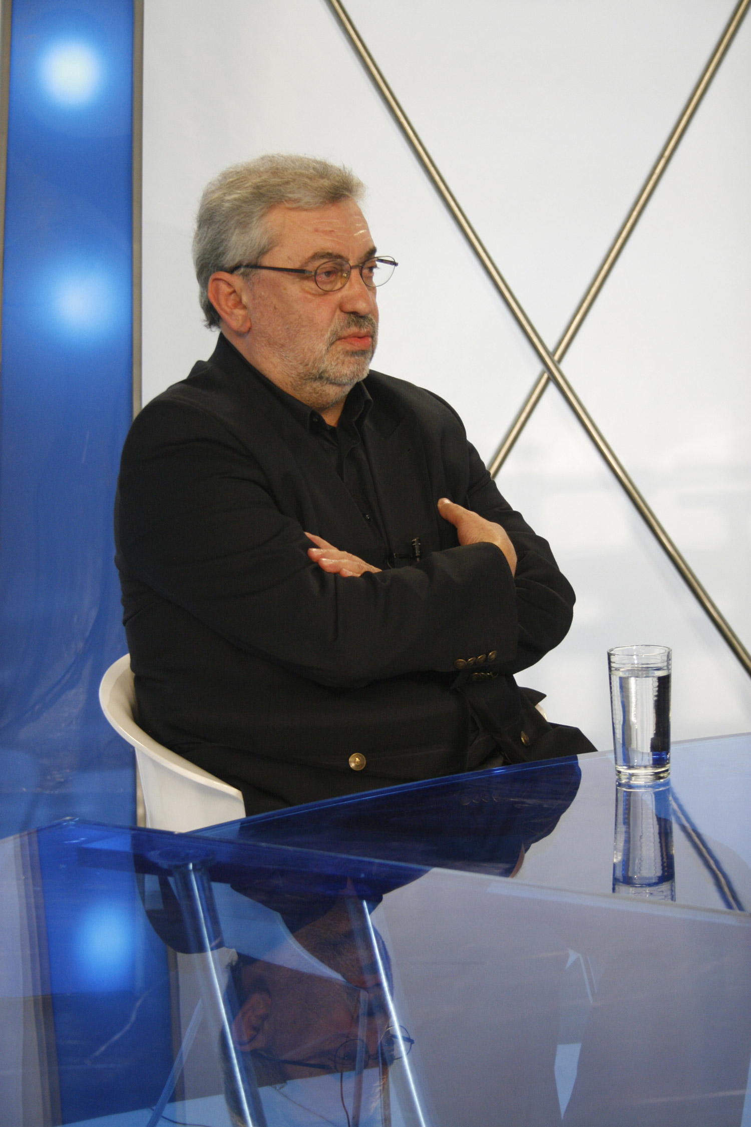 Photo of Vidosav Stevanović